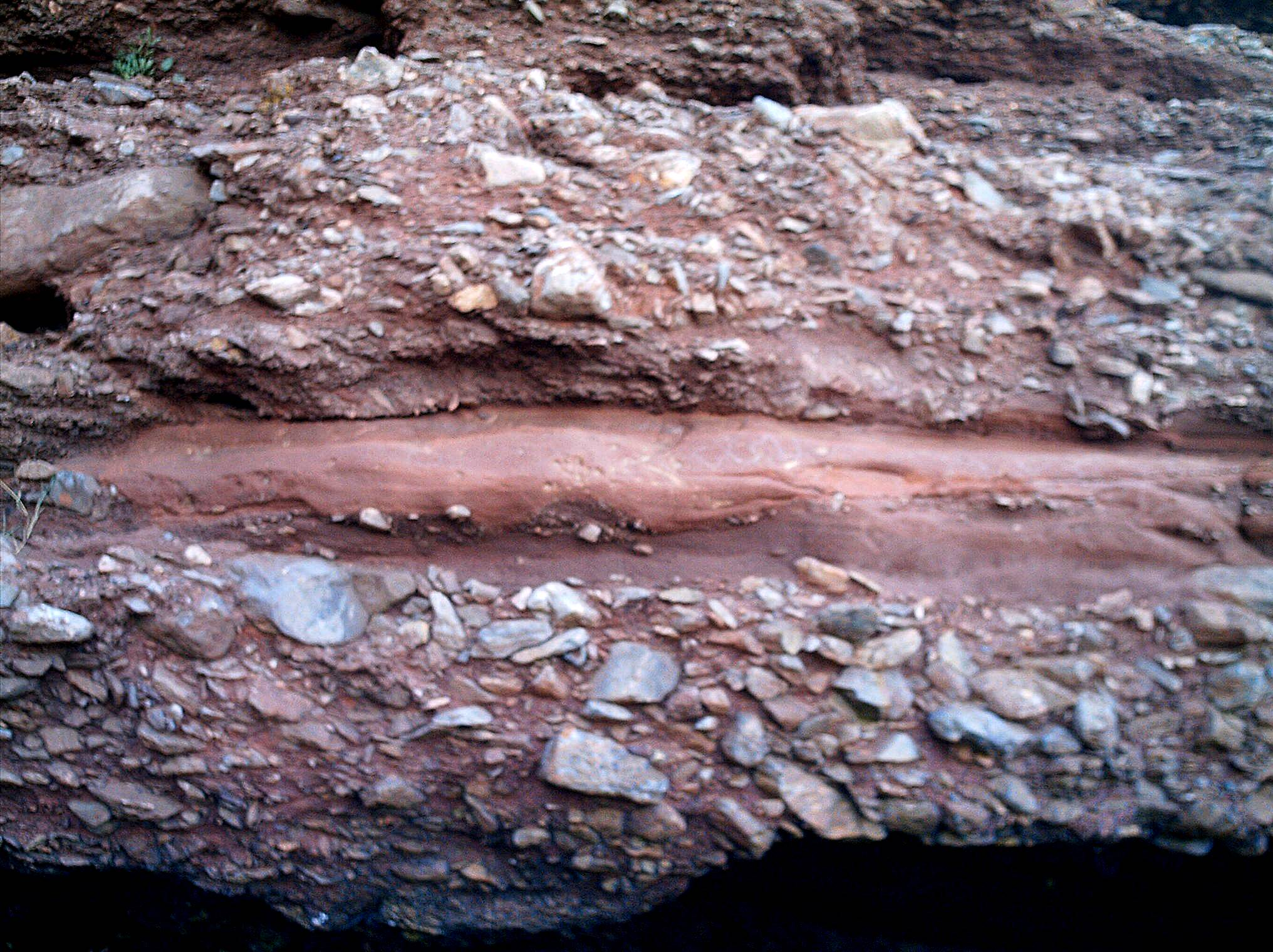 Changes in rock layers at Saltern Cove, Paignton, UK. Distance from camera: one metre.